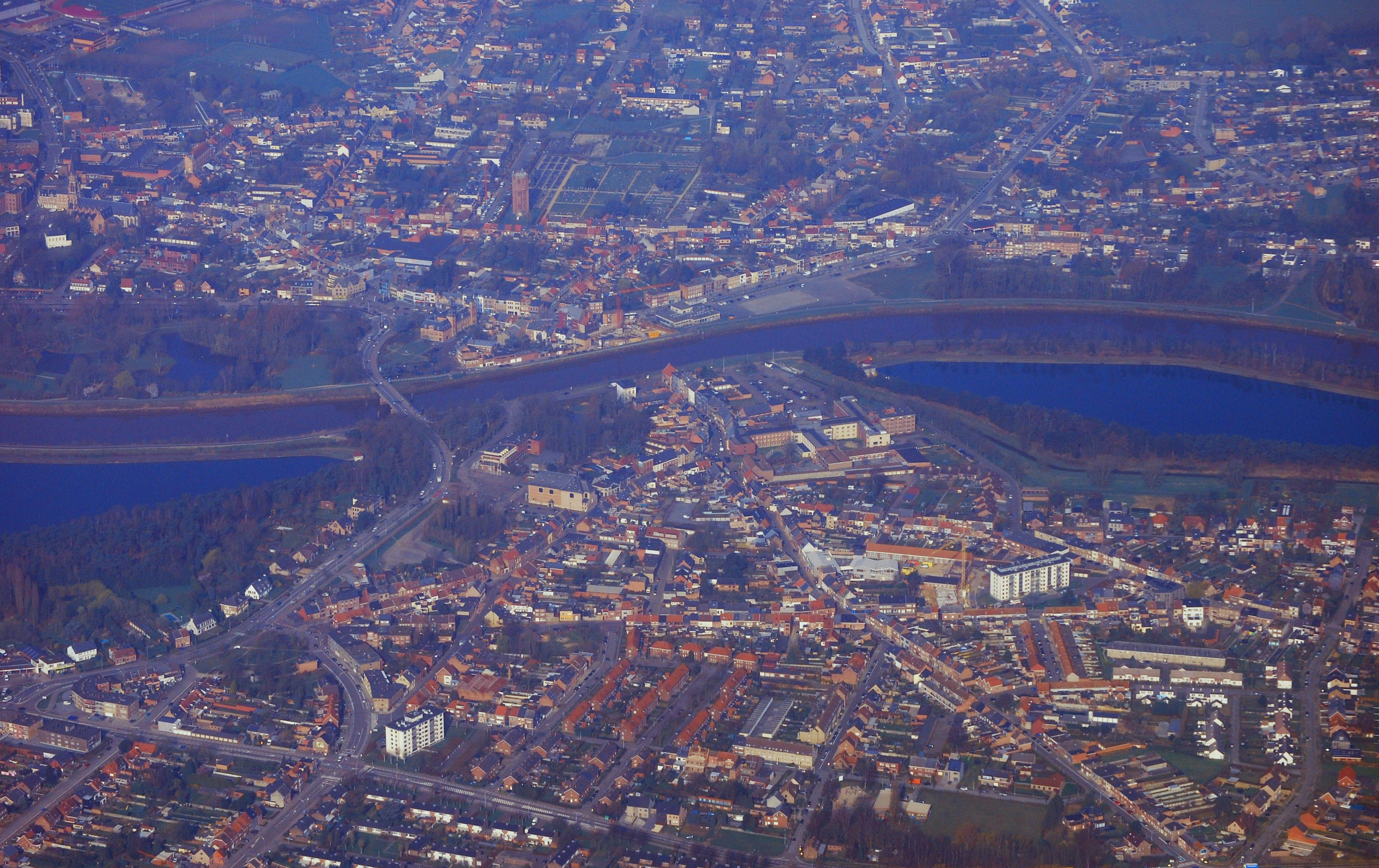 Aerial view of the centre of Duffel, Belgium. Nikon D60 f=75mm f/7.1 at 1/800s ISO 200. Processed using GIMP 2.6.11.